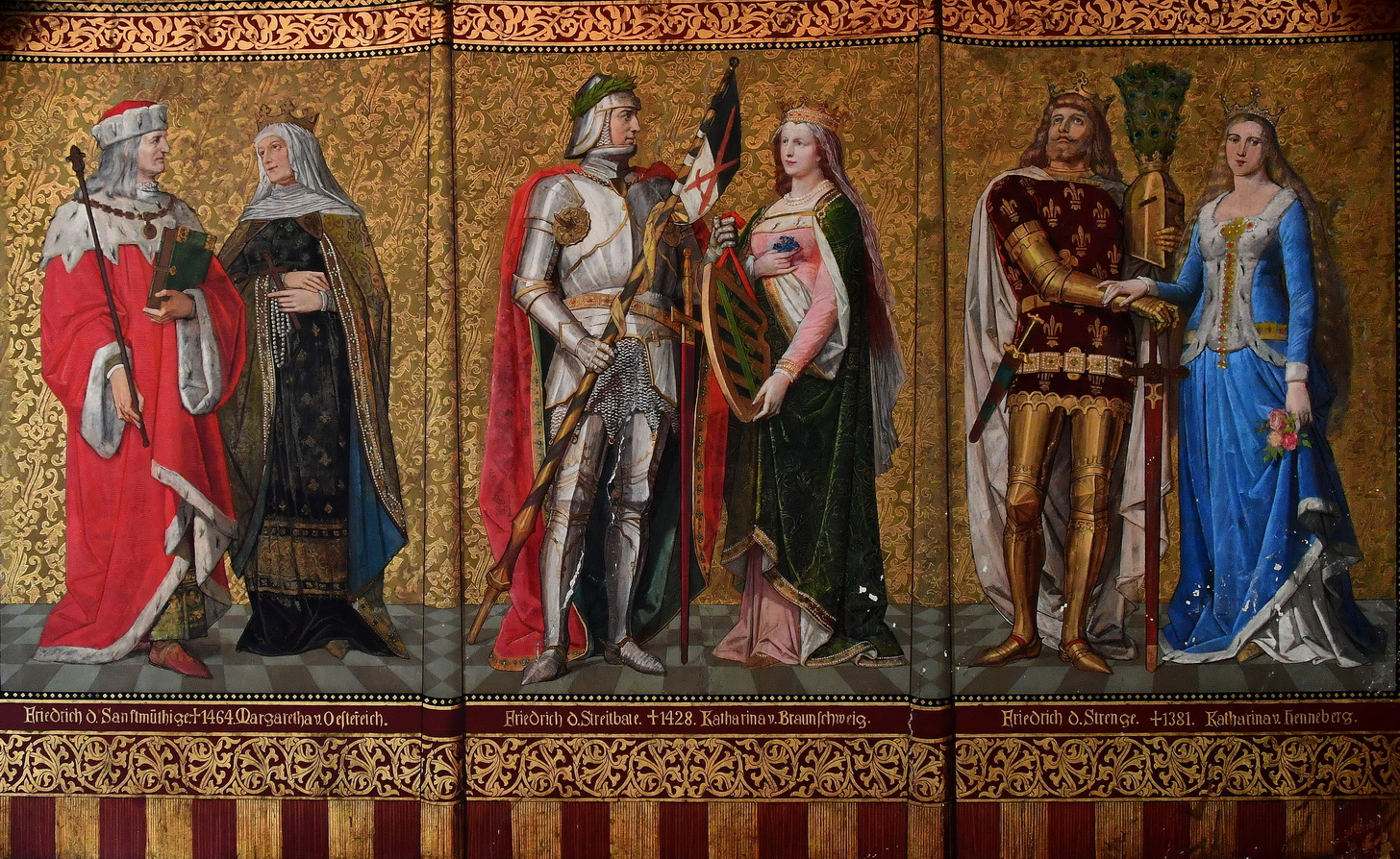 Albrechtsburg Meißen, Wandgemälde unter dem Trompeterstuhl, vlnr. Die Markgrafen Friedrich der Sanftmütige, Friedrich der Streitbare und Friedrich der Strenge mit ihren Frauen